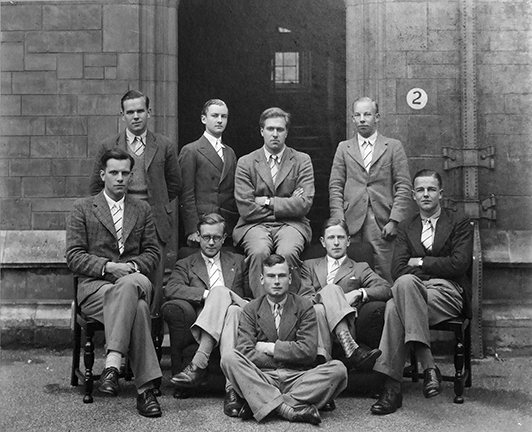 Used with the acknowledgment to The Warden and Fellows of Merton College Oxford. This photograph has been reproduced with the kind permission of Gillman & Soame and can be viewed and ordered via their website using the following link